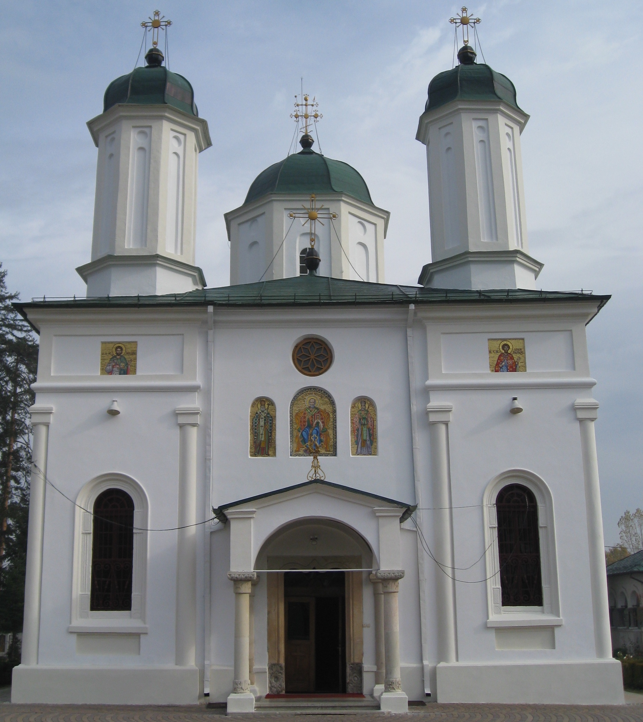 Cathedral, Râmnicu Vâlcea, Romania